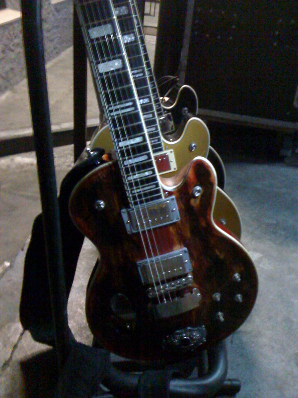 Andrzej Nowak's guitars